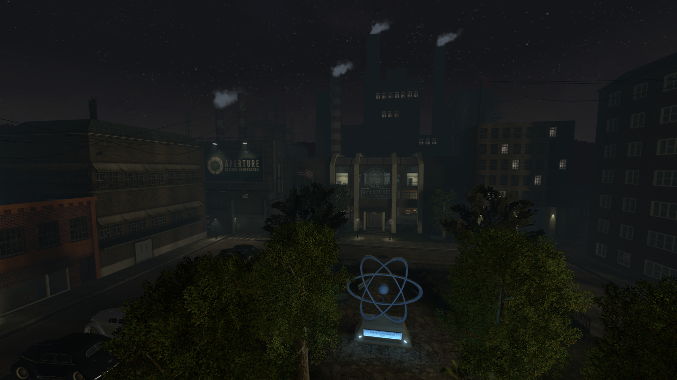 Est entrance of Aperture, created in 1947. Screenshot of the game Portal Stories: Mel. Authorized upload after making a request to Prism Studios Ltd.